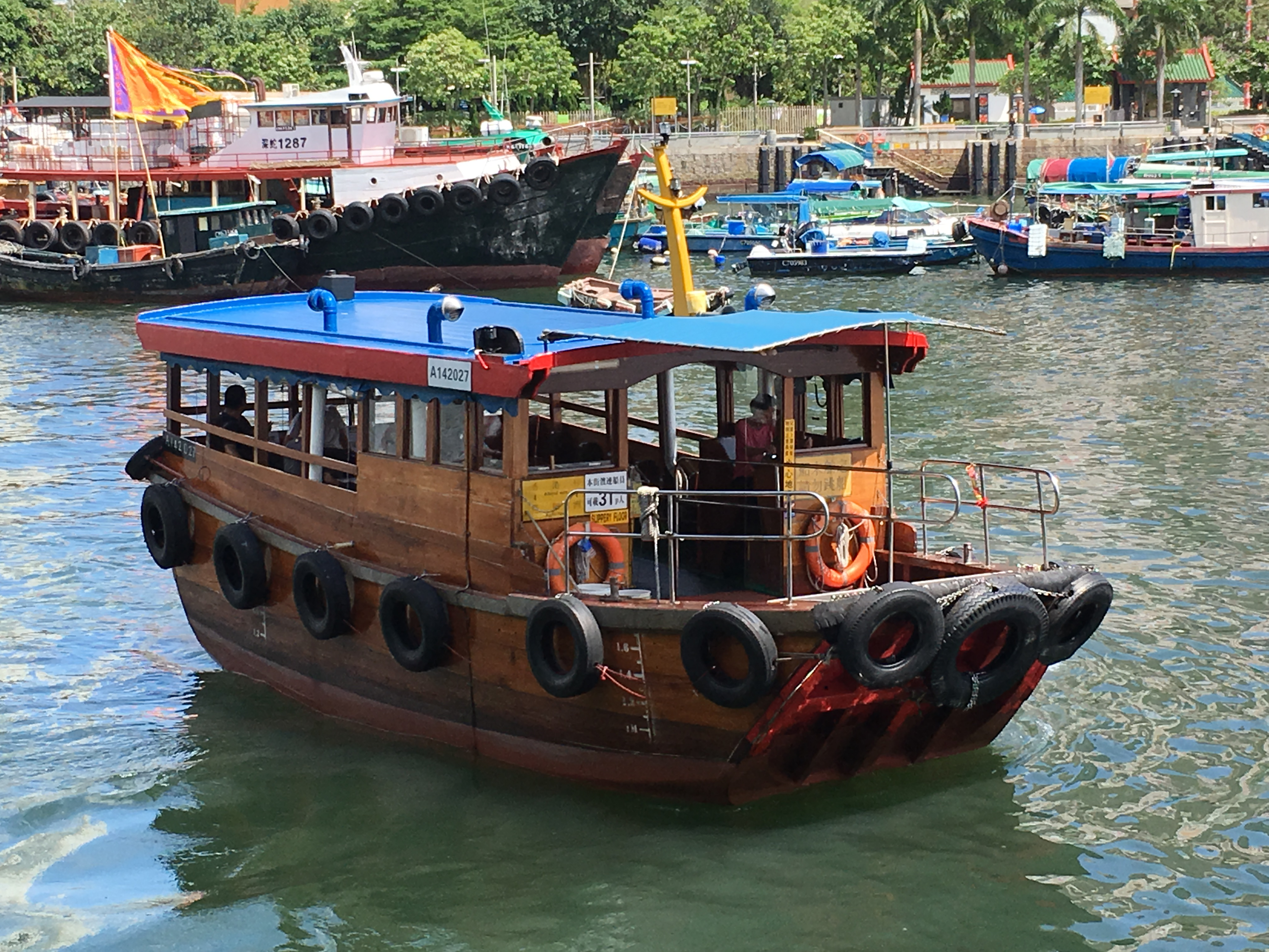 This photo is taken in Aberdeen.